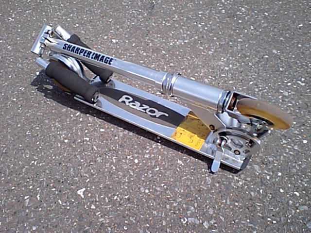 The old Razor, I bought at a recycle store.